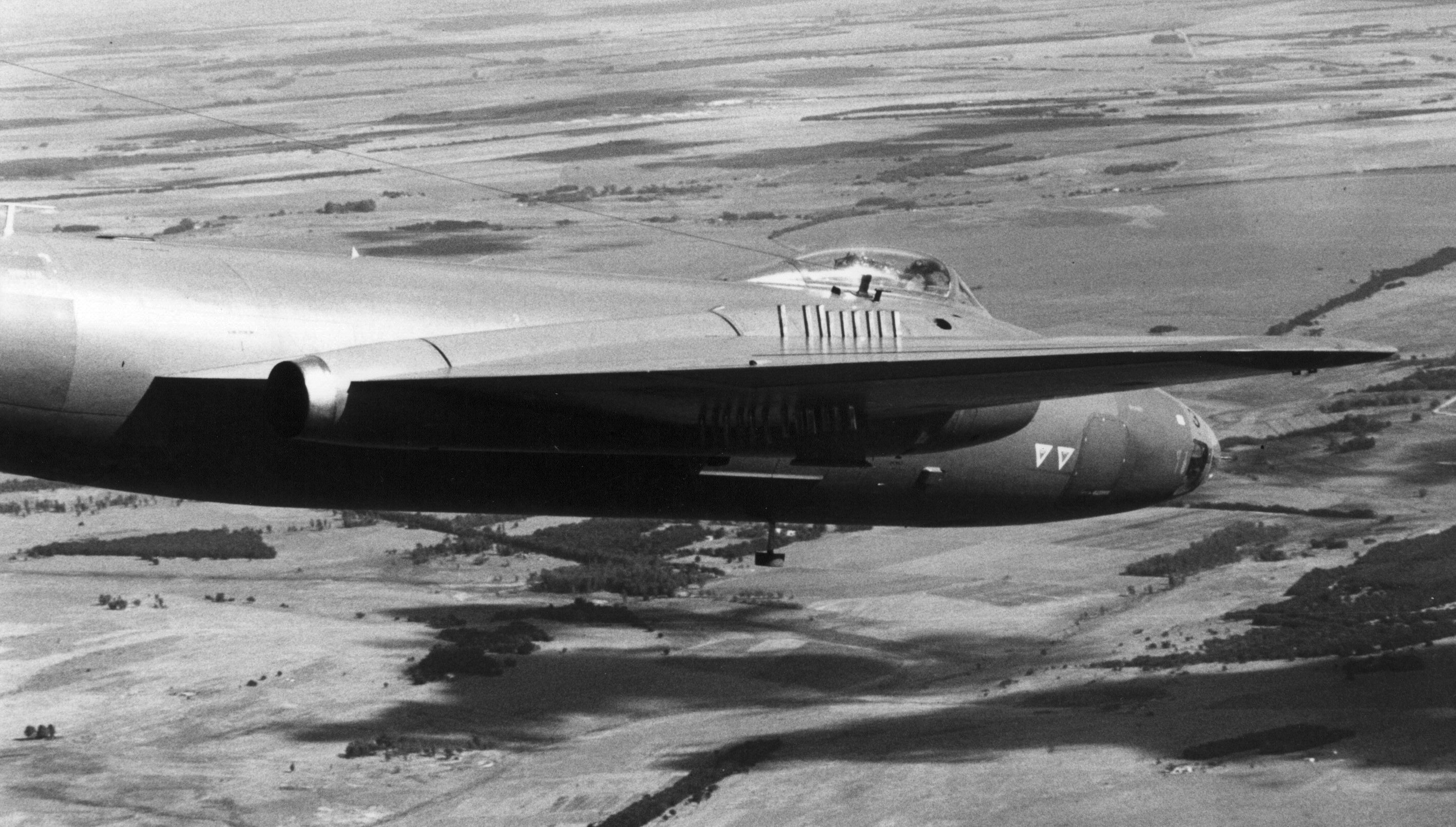 An English Electric Canberra B12 of the South African Air Force with inertial navigation and special sensors package over Transvaal